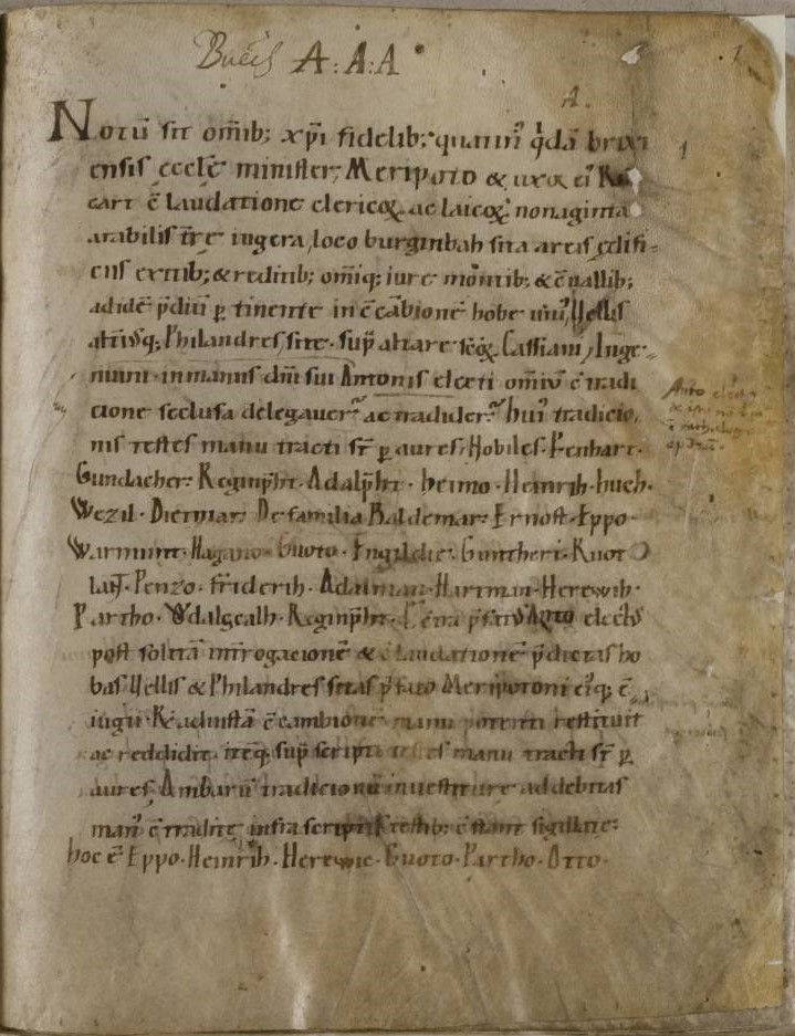 Traditionsbuch des Hochstifts Brixen A (Cod. 139), fol. 1r